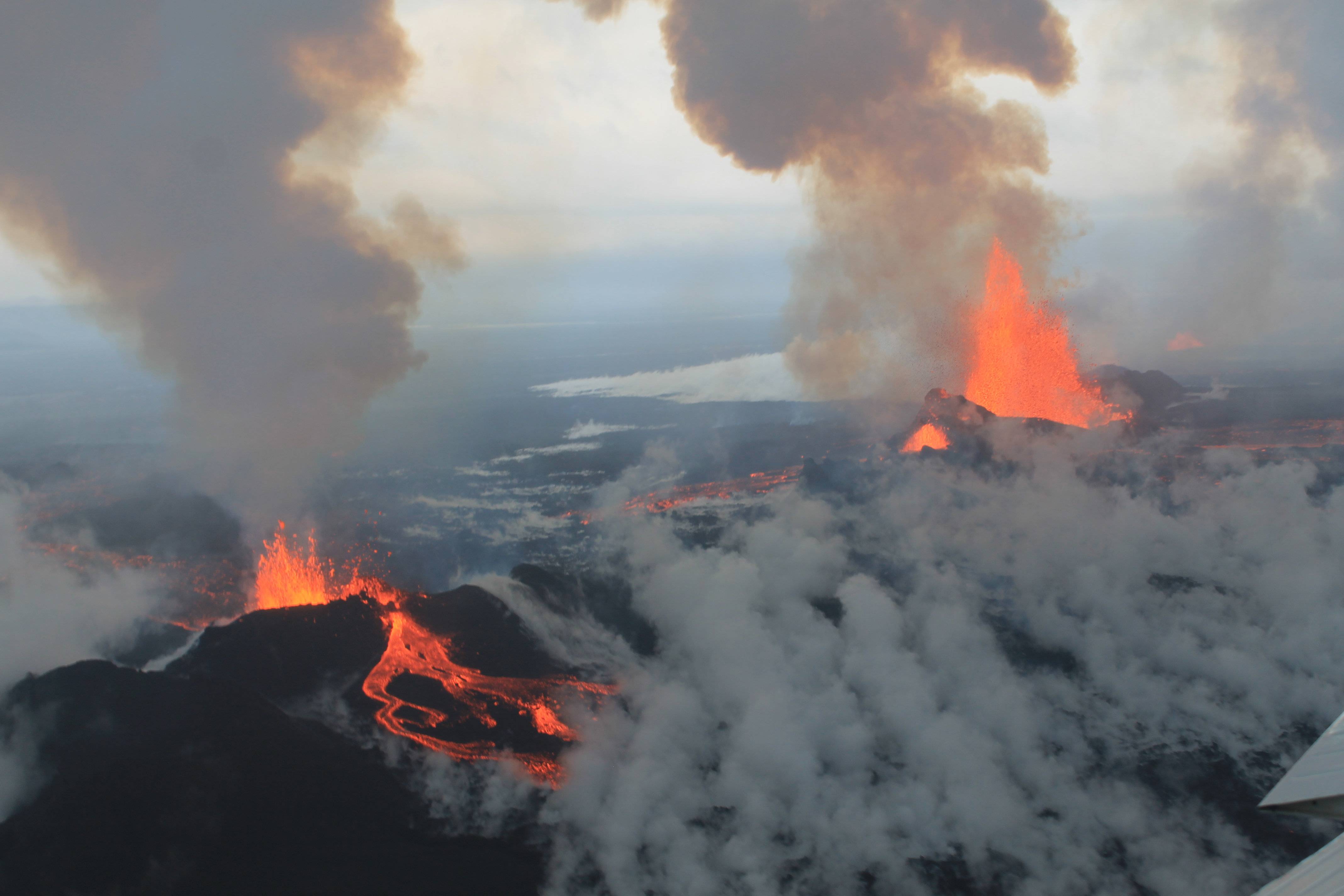 Pictures taken by Peter Hartree between 14.30 and 15.00 on September 4th 2014. I'm sorry for the less than ideal quality of these - this wasn't a professional photo shoot. All photos are unedited. I have a bunch more (fairly similar) shots - if you'd like to see them, write to . Many thanks to pilot Siggi G for the ride.